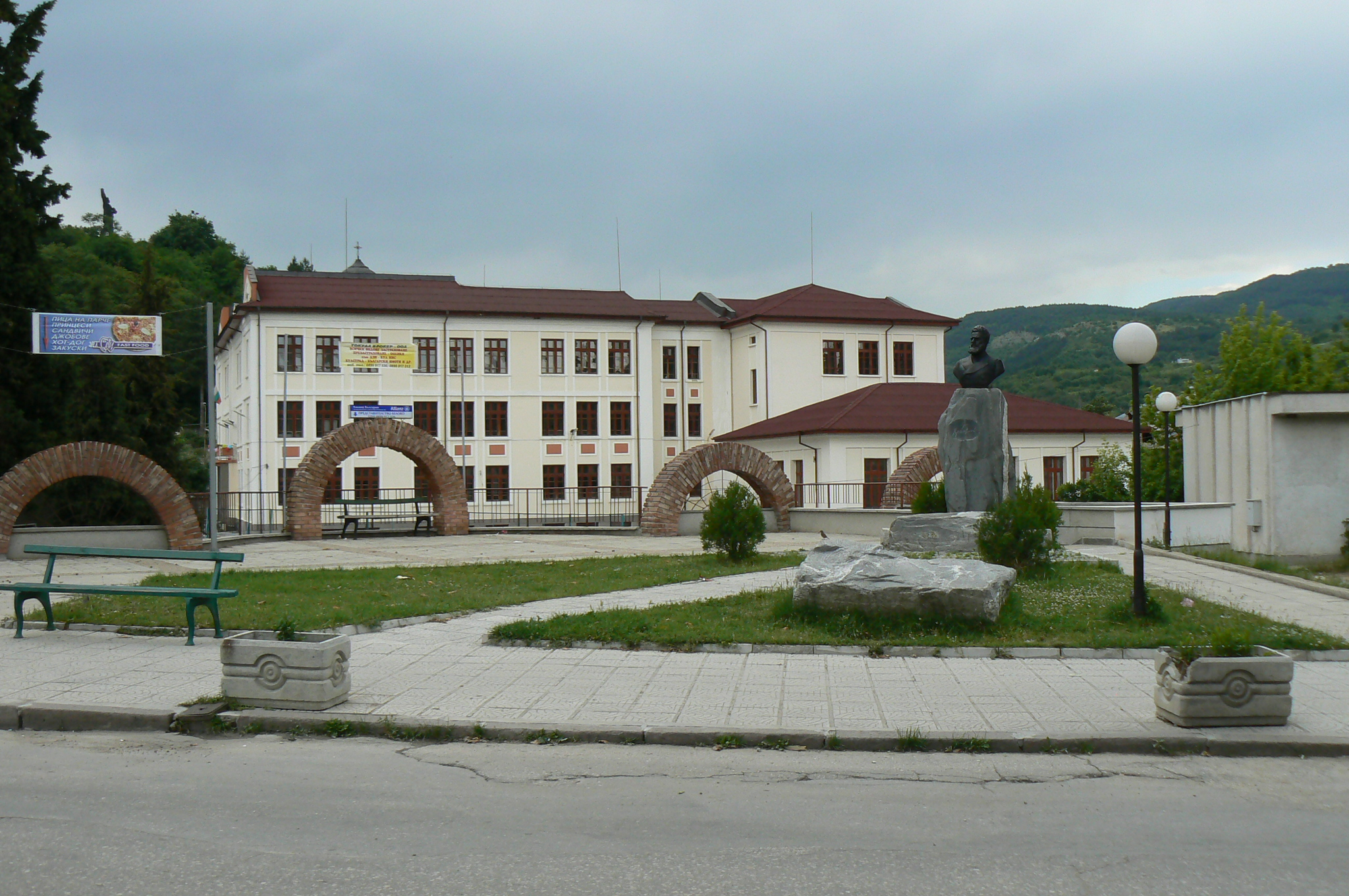 The monument of Hristo Botev and the building of school "Alexander Ivanov - Chapai" in town Belovo, Bulgaria